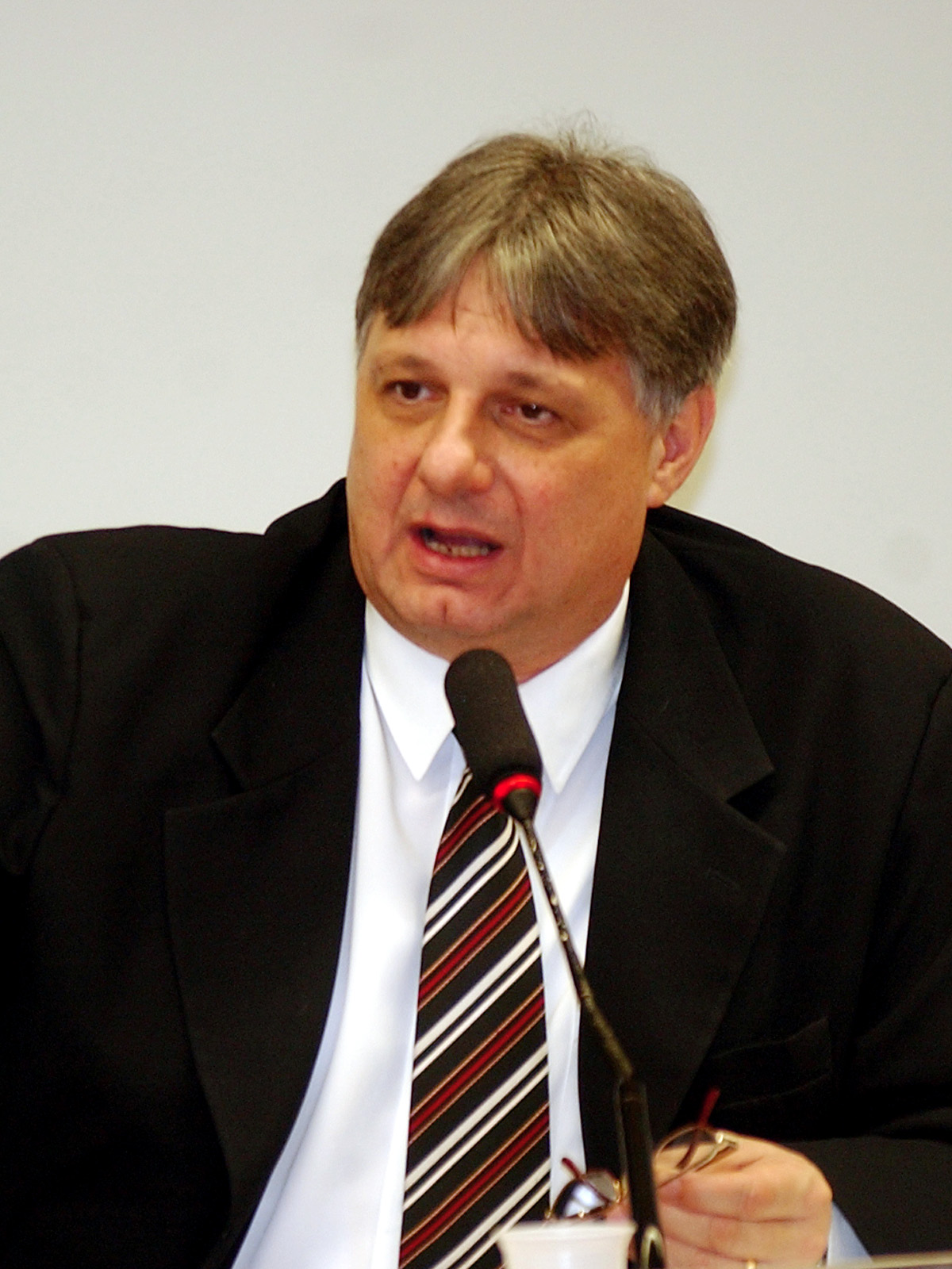 Brazilian congressman Moroni Torgan.